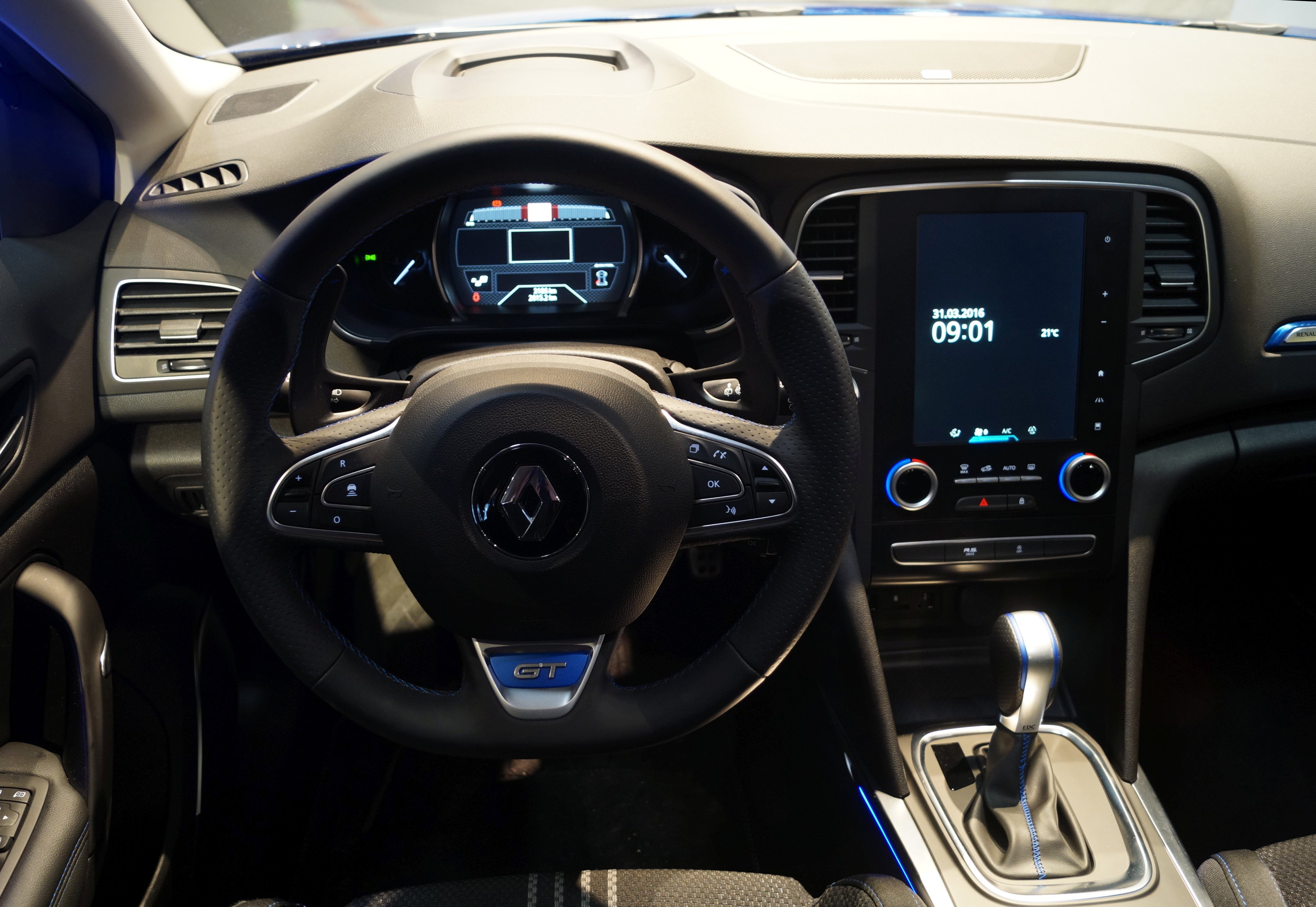 The making of this document was supported by Wikimedia Polska Association, within Wikigrant no. WG 2016-10. Wnętrze Renault Mégane na Motor Show Poznań 2016